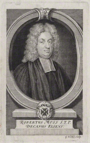 Portrait of Robert Moss